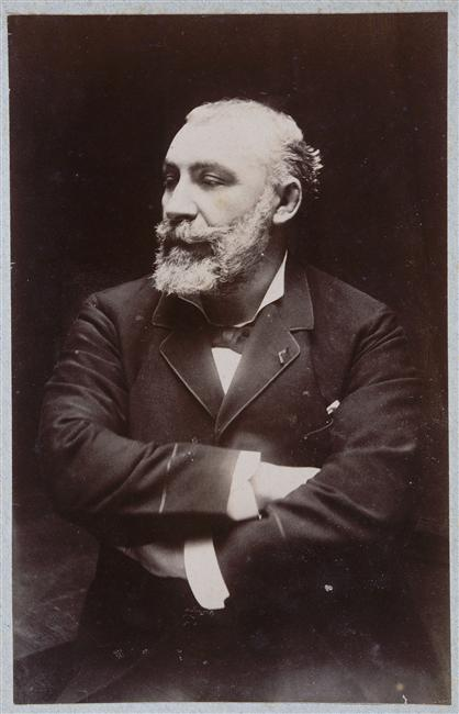 Photograph of French artist Rodolphe Julian (1839-1907), founder of the Académie Julian